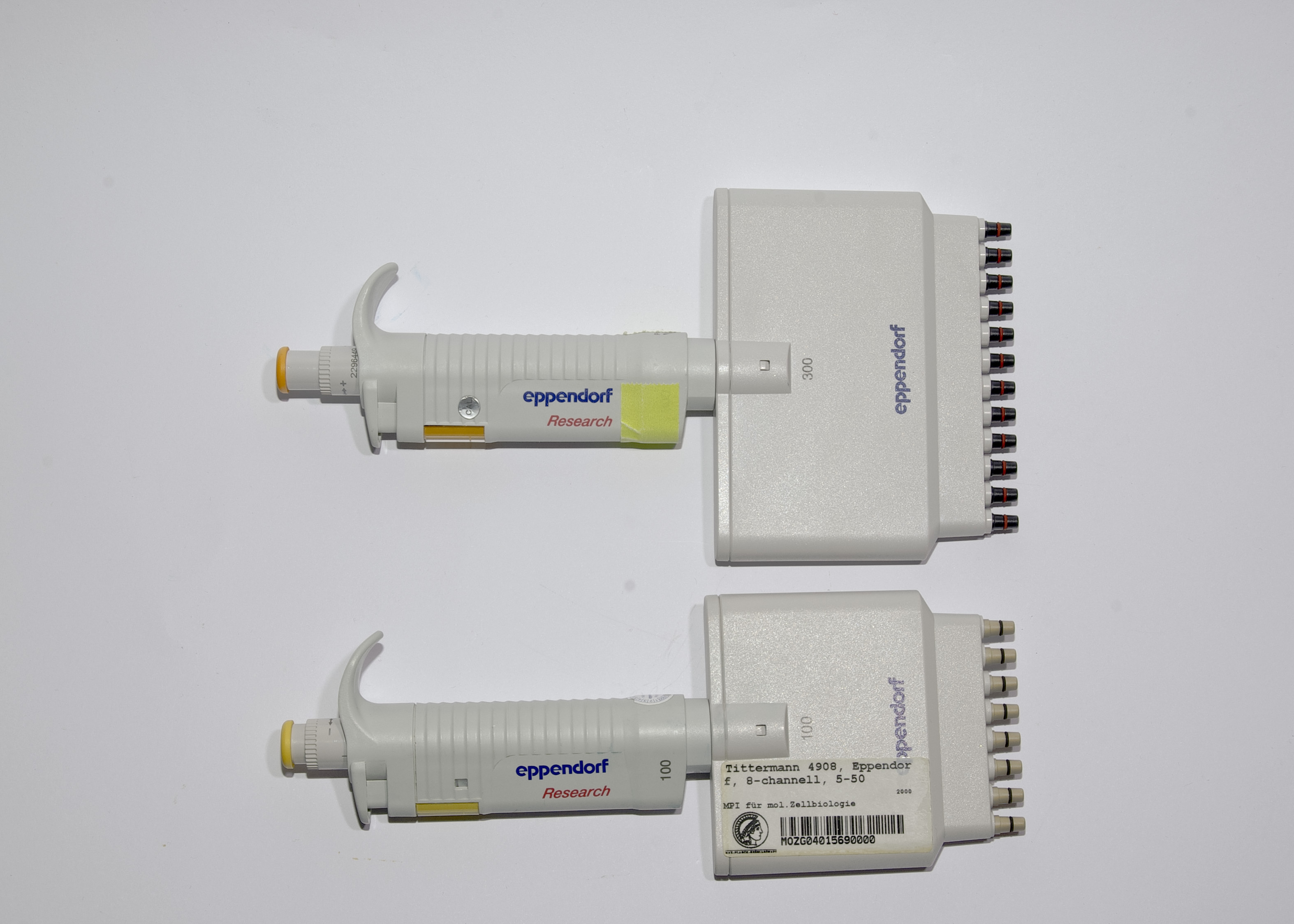 8 & 12-channel multichannel pipette